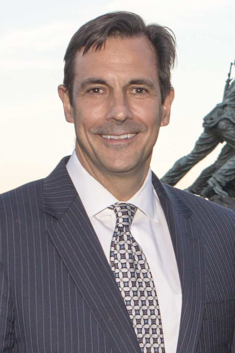 From left Robert D. Hogue, counsel for the Commandant of the Marine Corps; The Honorable Mark Paoletta, counsel for the Vice President of the United States; The Honorable Neil M. Gorsuch, associate justice of the Supreme Court of the United States and Don McGahn, counsel to the President of the United States, pose for a photo during a sunset parade at the Marine Corps War Memorial, Arlington, Va., June 6, 2017. Sunset parades are held as a means of honoring senior officials, distinguished citizens and supporters of the Marine Corps. (U.S. Marine Corps photo by Cpl. Christian Varney)